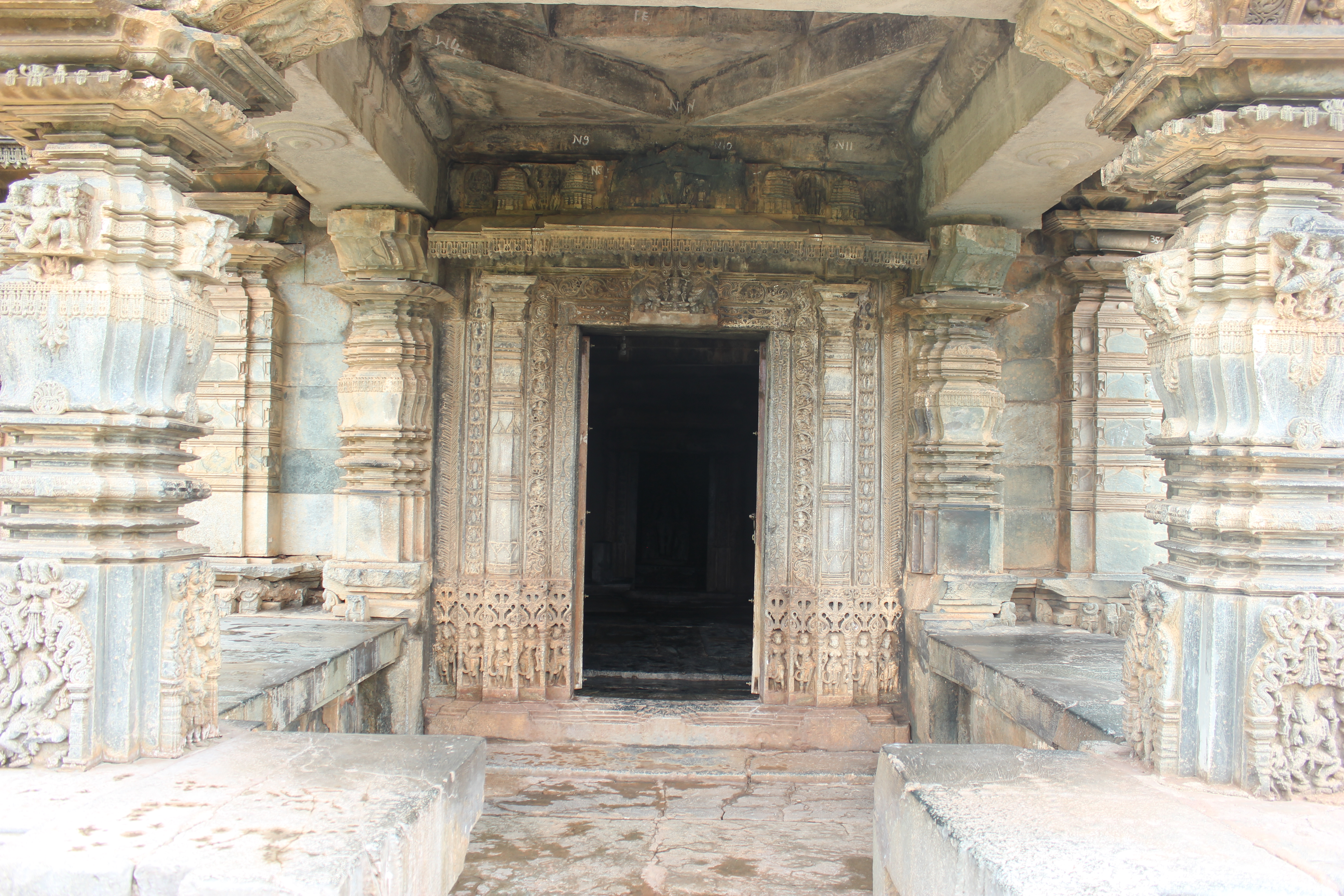 This photograph was taken by me at the Kalleshvara temple (also spelt Kalleshwara or Kallesvara) in Hire Hadagali, Bellary district, Karnataka state, India. The temple was built in 1057 A.D. by Western (Kalyani) Chalukya King Somesvara I